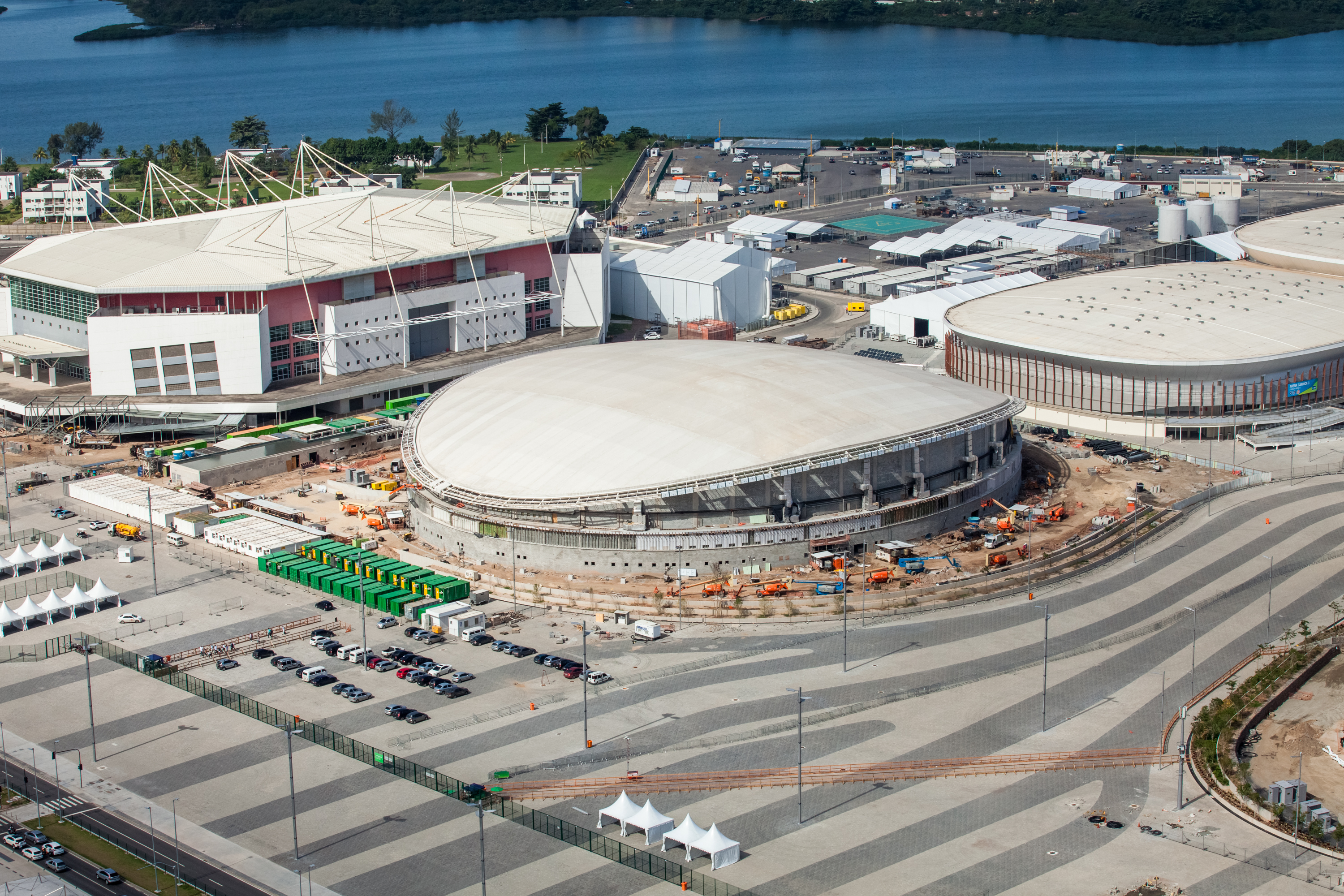 Objects of the Olympic Park with the bird's-eye view.